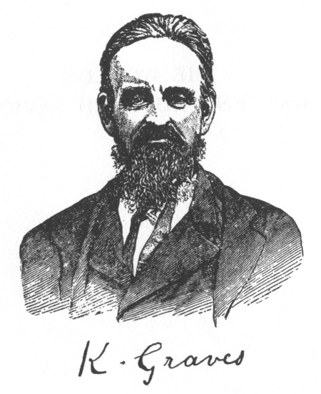 Kersey Graves, author of The World's Sixteen Crucified Saviors (1875).